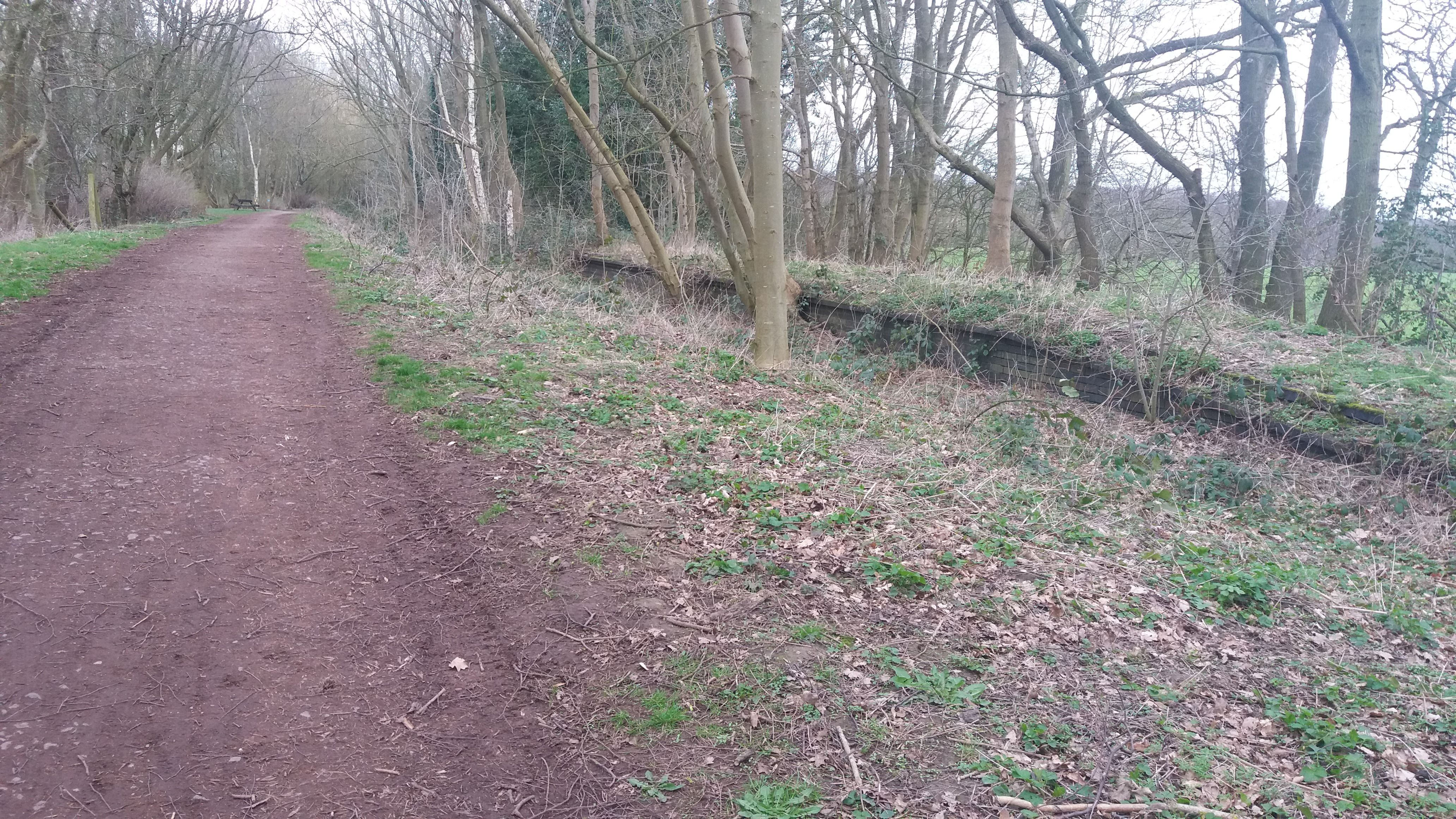 My own.